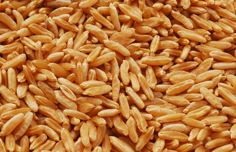 Kamut Brand Khorasan wheat